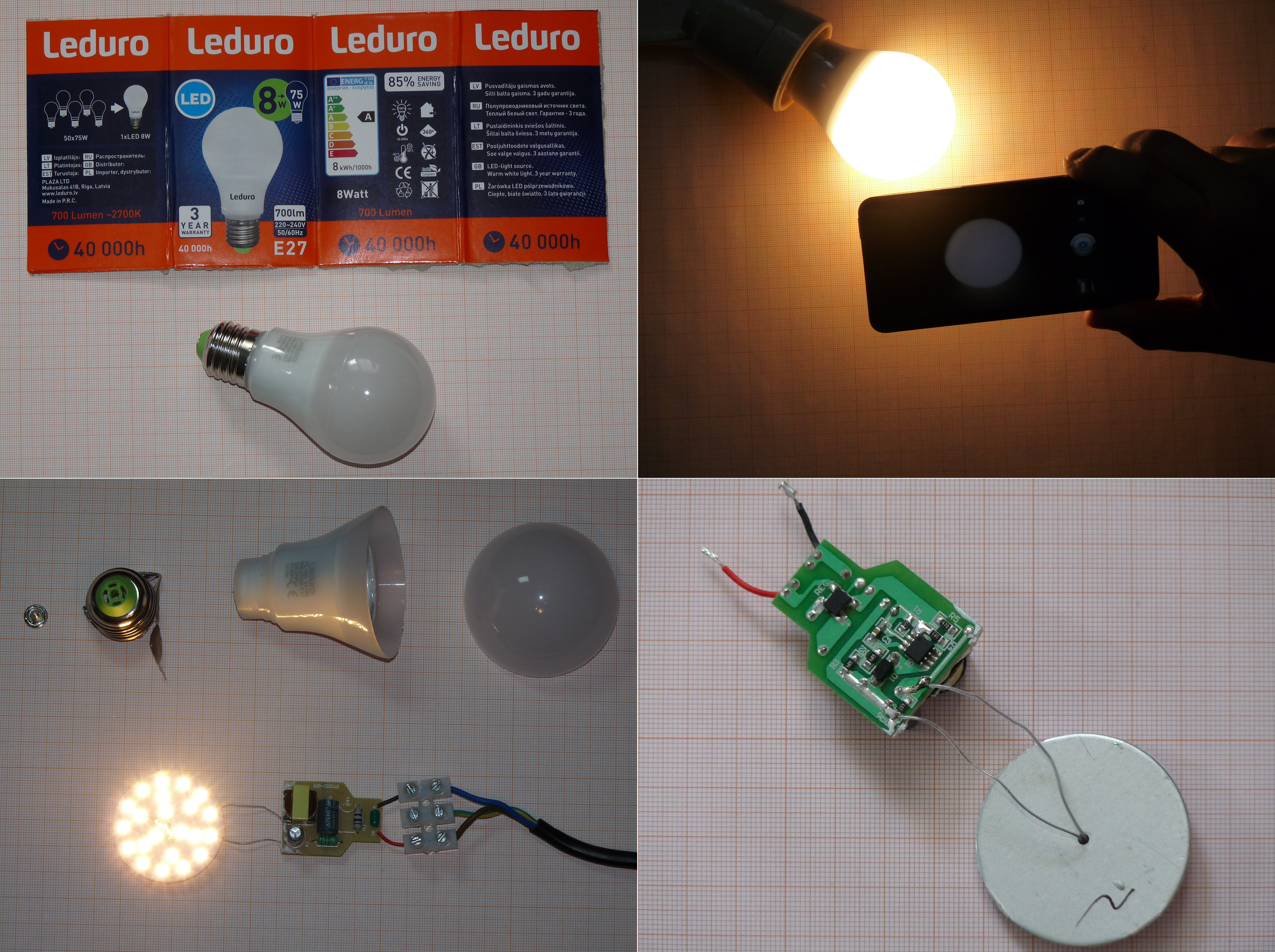 Disassembled 8-watt LED light bulb (700lm) manufactured by Leduro. Very quality product for 9.80€. There were found out next properties during examination: Advantages: cosφ=0.734 lack of cosφ is compensated by high-efficiency diodes SMD_2835 level of flickeing ≤2% - safe for eyes light weight Disadvantages: too small heat sink several LC-filters - may cause interferences for sensitive appliences PVC-wires between power supply and LED matrix are lined inside heat sink, which may bring to short circuit on continious operation